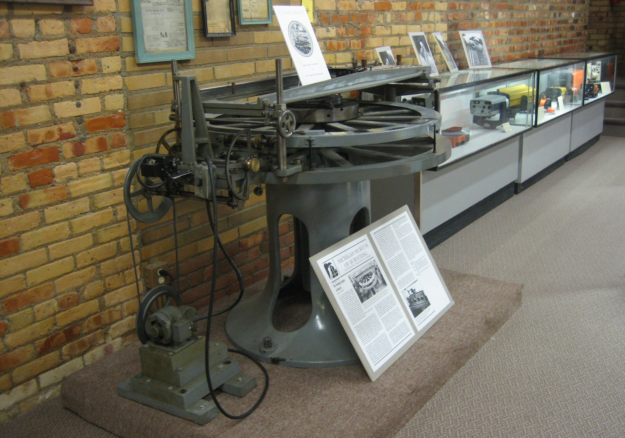 Photo of dividing engine at Michigan Museum of Surveying, Lansing, MI, USA